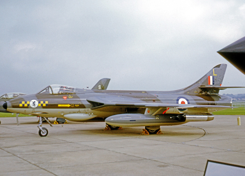 Hawker Hunter FGA.9 XJ642 'L' of 54 Squadron at RAF Abingdon in 1968.